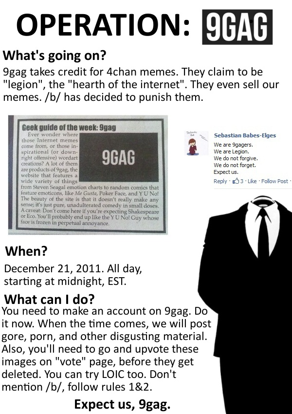 Operation 9GAG